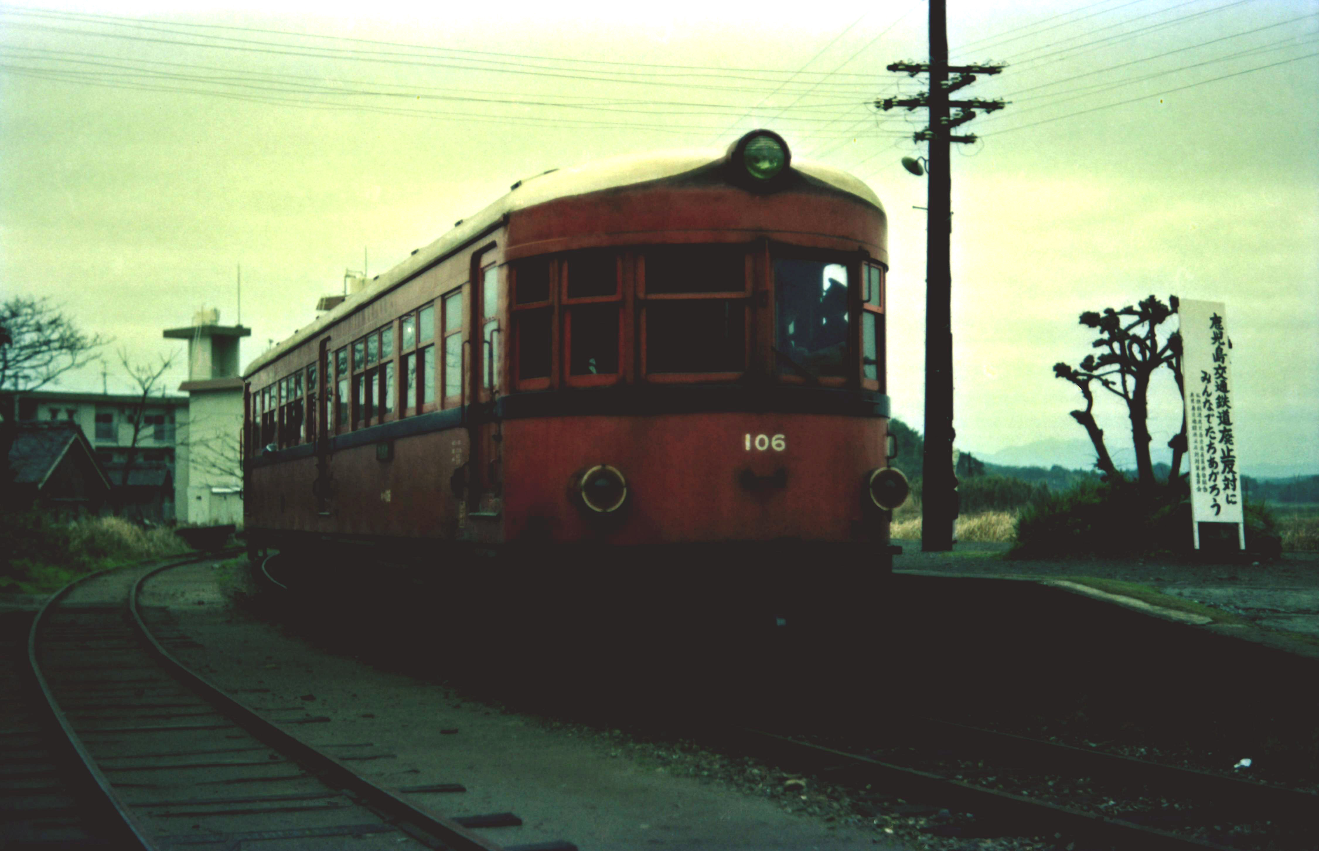 kagoshima_RW_DC_106